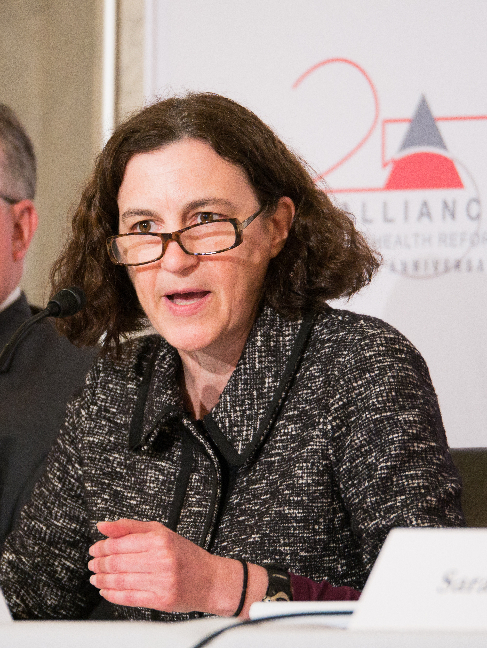 Cori Uccello of the American Academy of Actuaries speaks at an Alliance for Health Reform briefing on the individual health insurance market